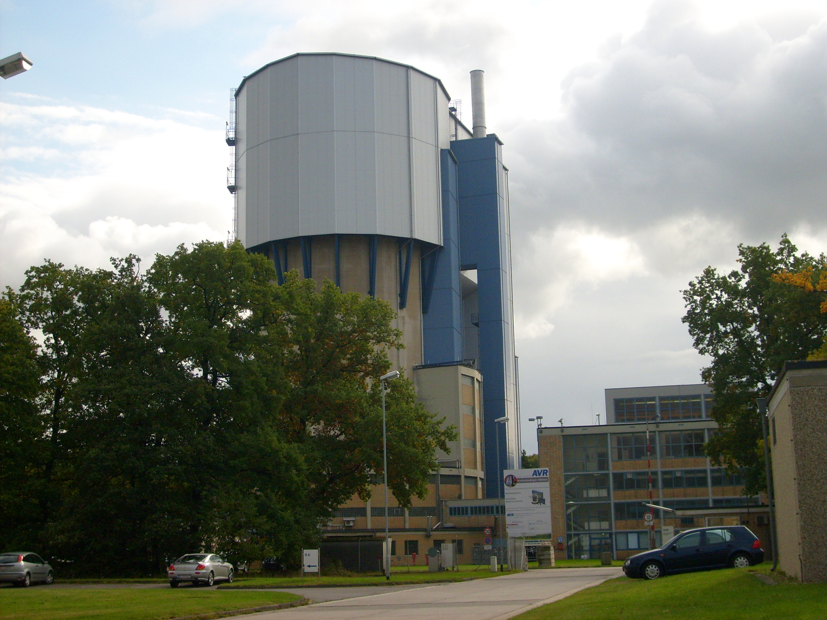 AVR High Temperatur Reactor at Forschungszentrum Jülich in the dismantling phase